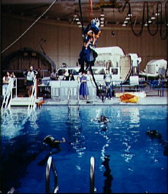 From NASA, via The only change I made to the image was to crop out the irrelevant portions. Niteowlneils 01:48, 26 Apr 2004 (UTC)